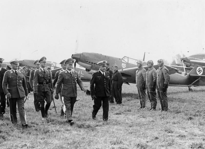 17 August 1938, General Joseph Vuillemin, from the French Air Force, reviews squadron "Richthofen" of the Luftwaffe, hosted by General der Flieger Erhard Milch and Generalleutnant Hans-Jürgen Stumpff.